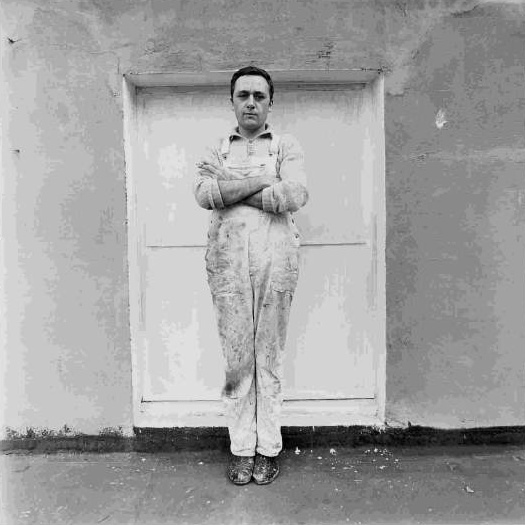 Gerhard Richter photographed by Lothar Wolleh, circa 1970